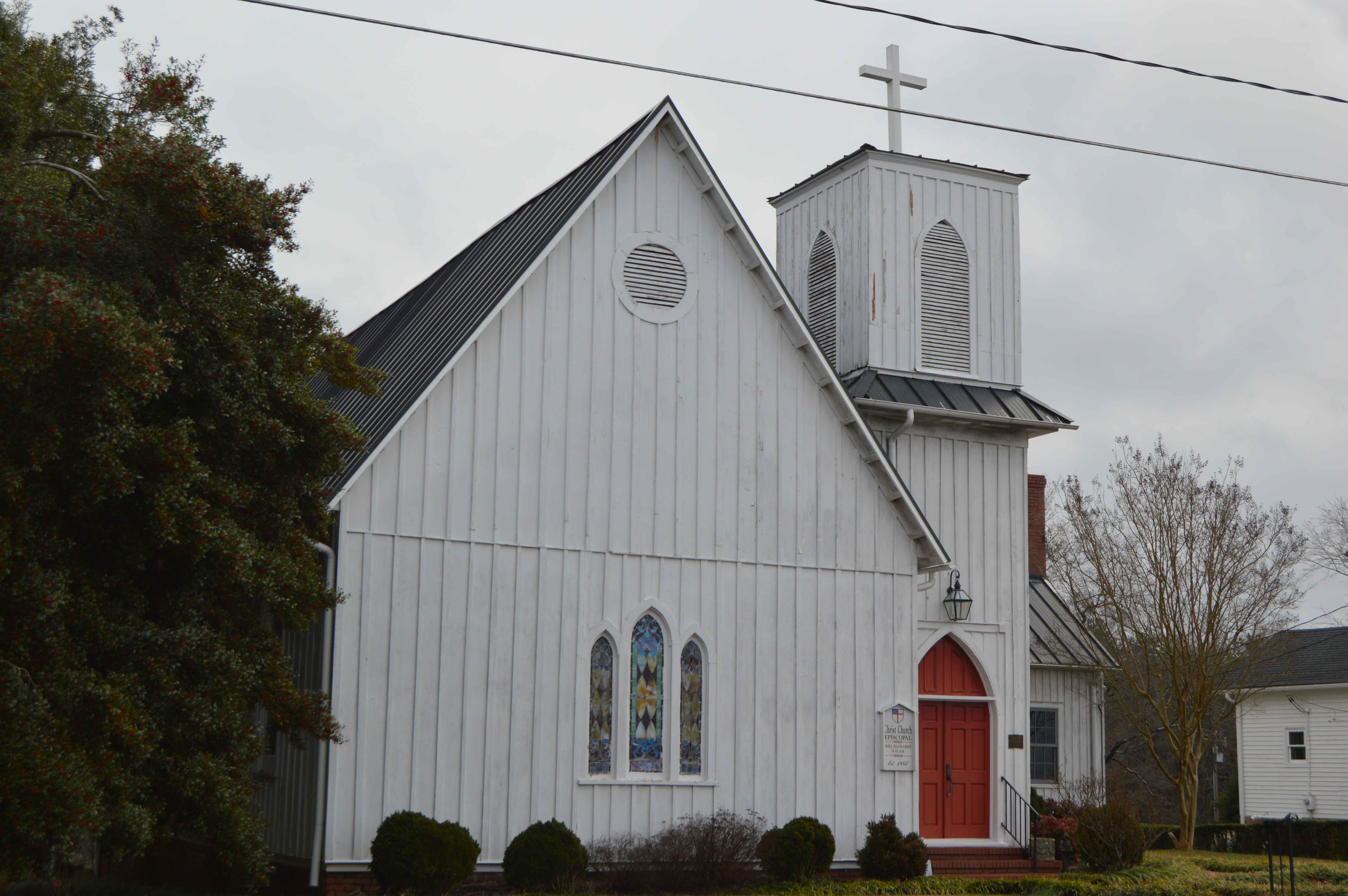 Front of Christ Episcopal Church, located at 412 Summit Avenue in Walnut Cove, North Carolina, United States. Built in 1886, it is listed on the National Register of Historic Places.